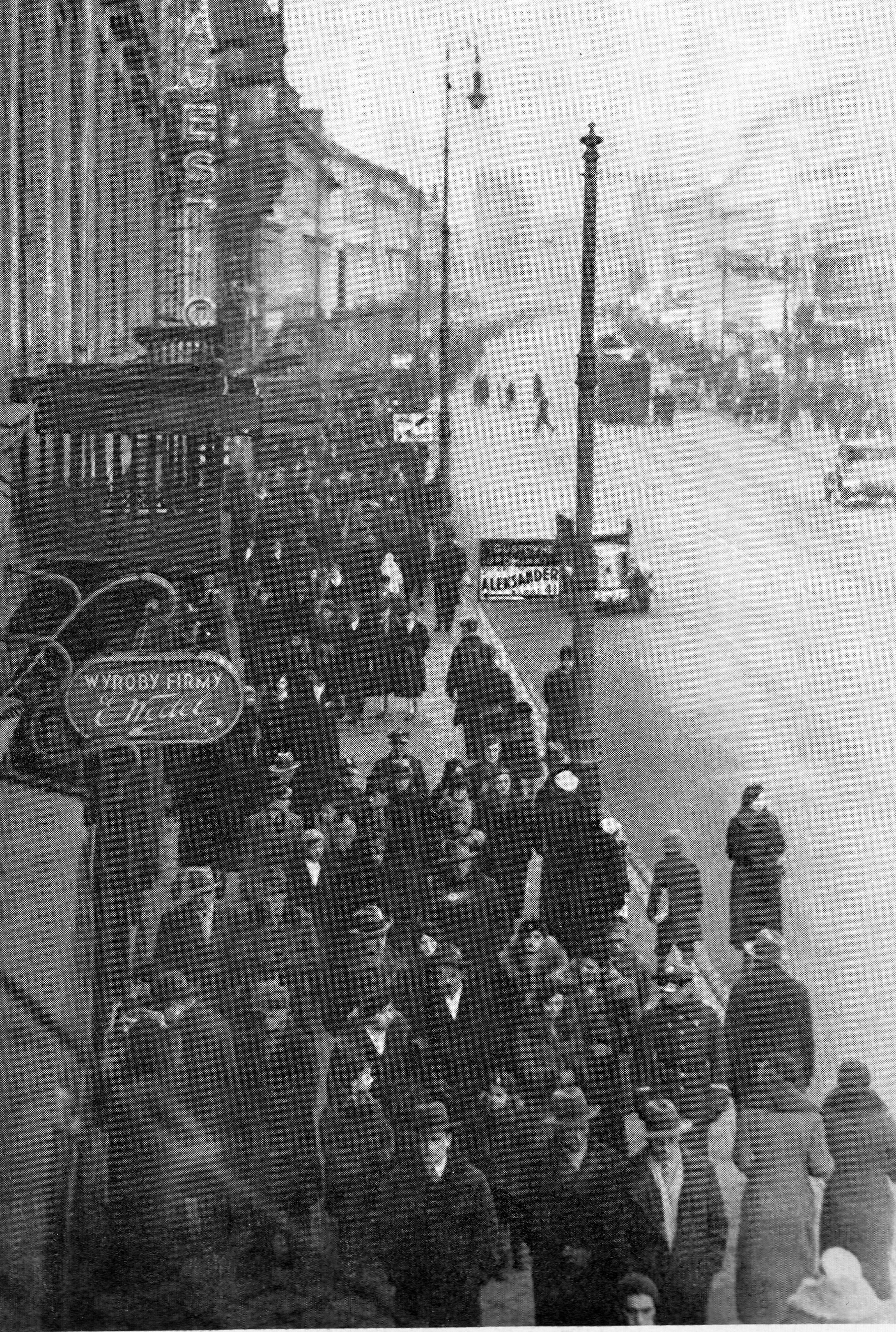 Nowy Świat Street in Warsaw